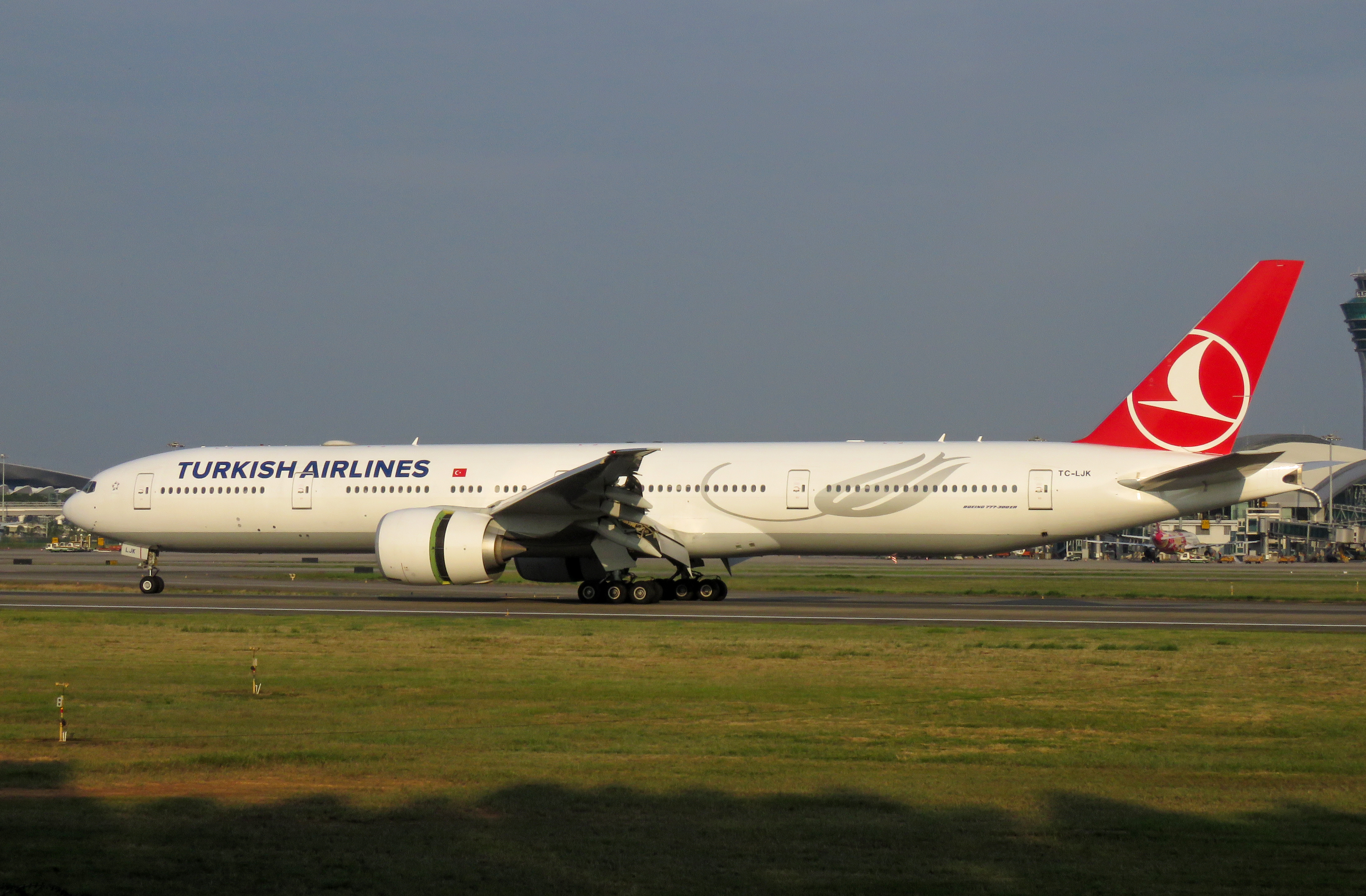 Turkish 72 from Istanbul.